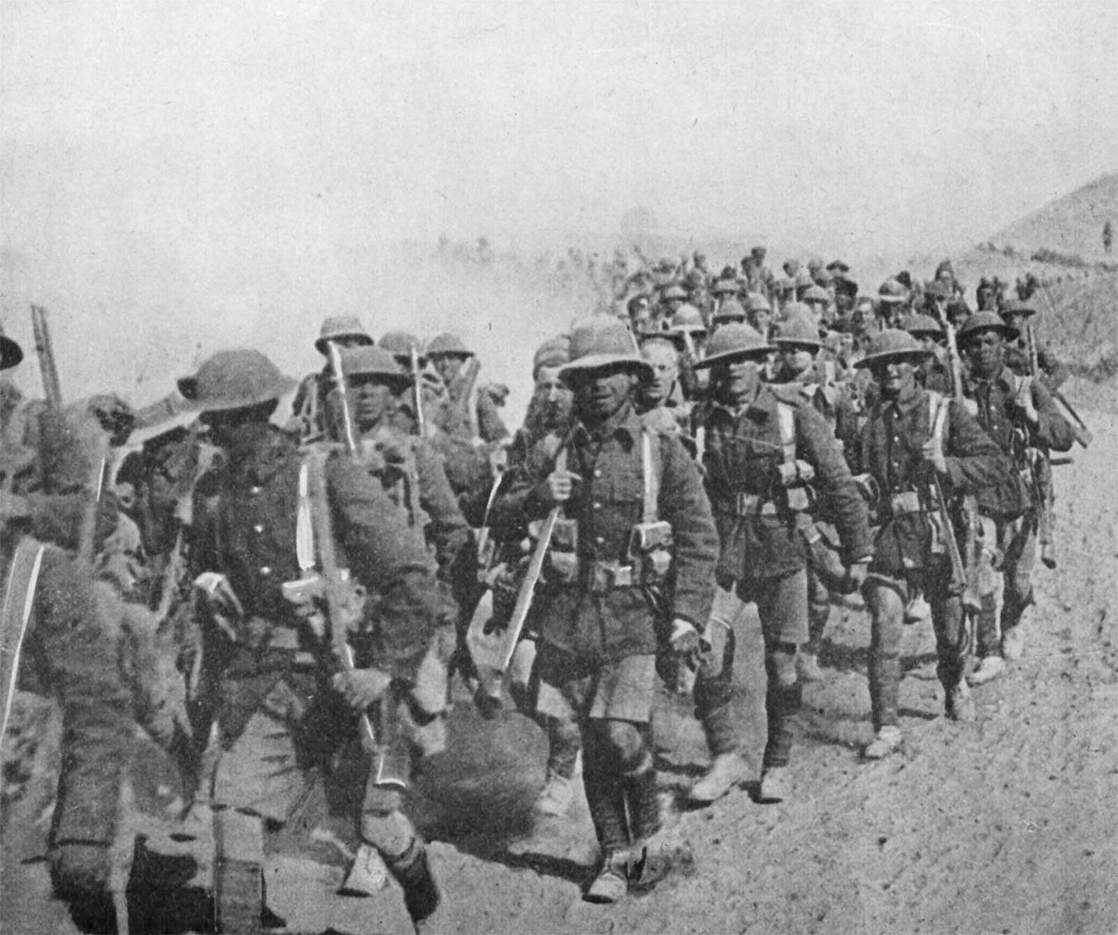 Photograph of British solidiers marching in Mesopotamia.